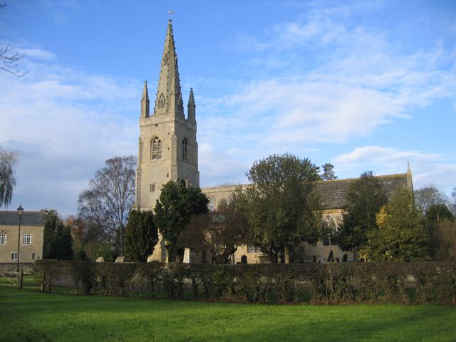 West Deeping parish church, Lincs. The church is dedicated to St Andrew and tower and spire were probably built around 1370; restored in 1874–77.